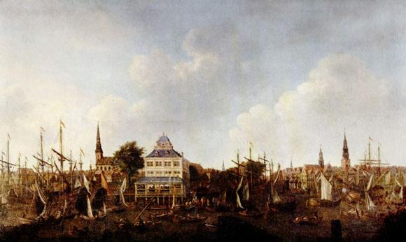 Baumhaus in Hamburg with the port